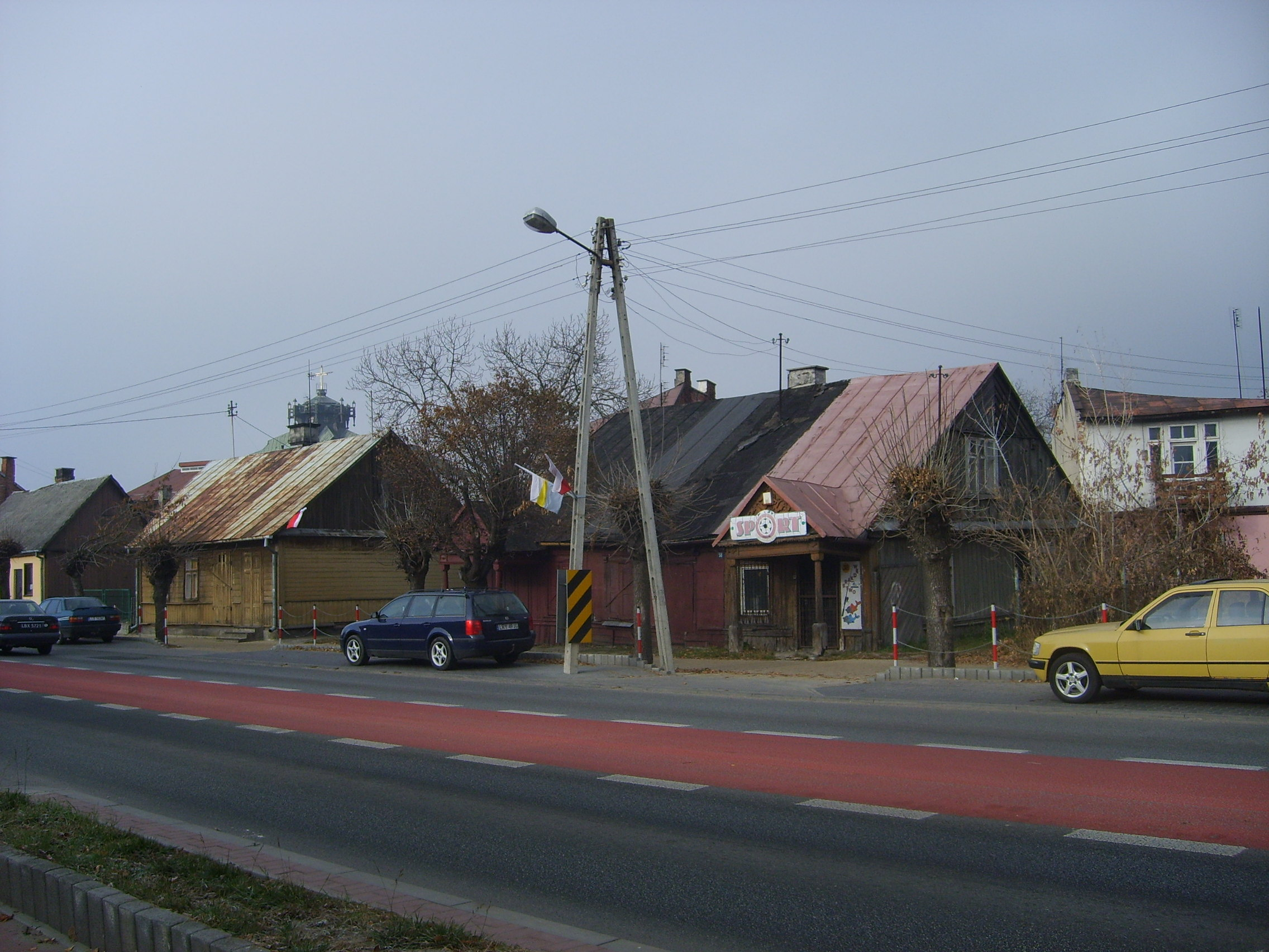 Wooden houses in Dęblin, Poland, on Warszawska street.